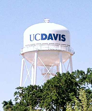 UC Davis water tower